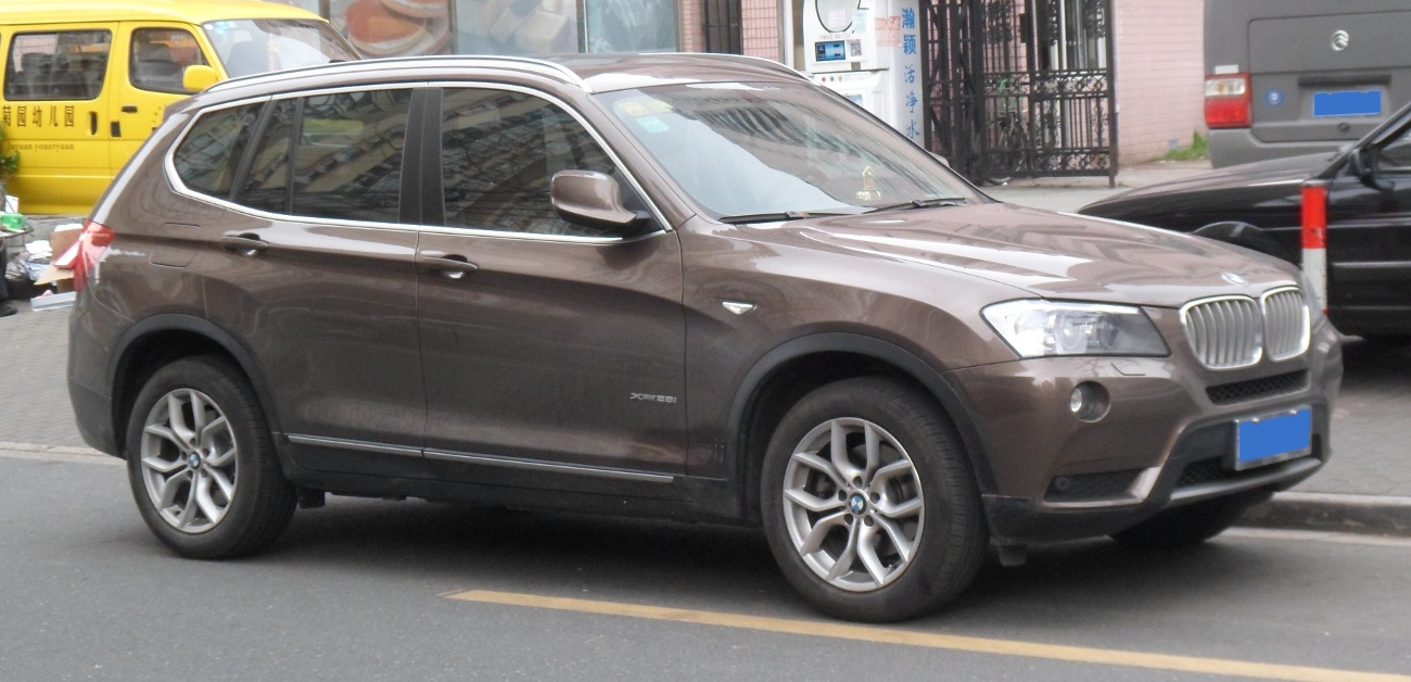 BMW X3 F25 photographed in Shanghai, China.